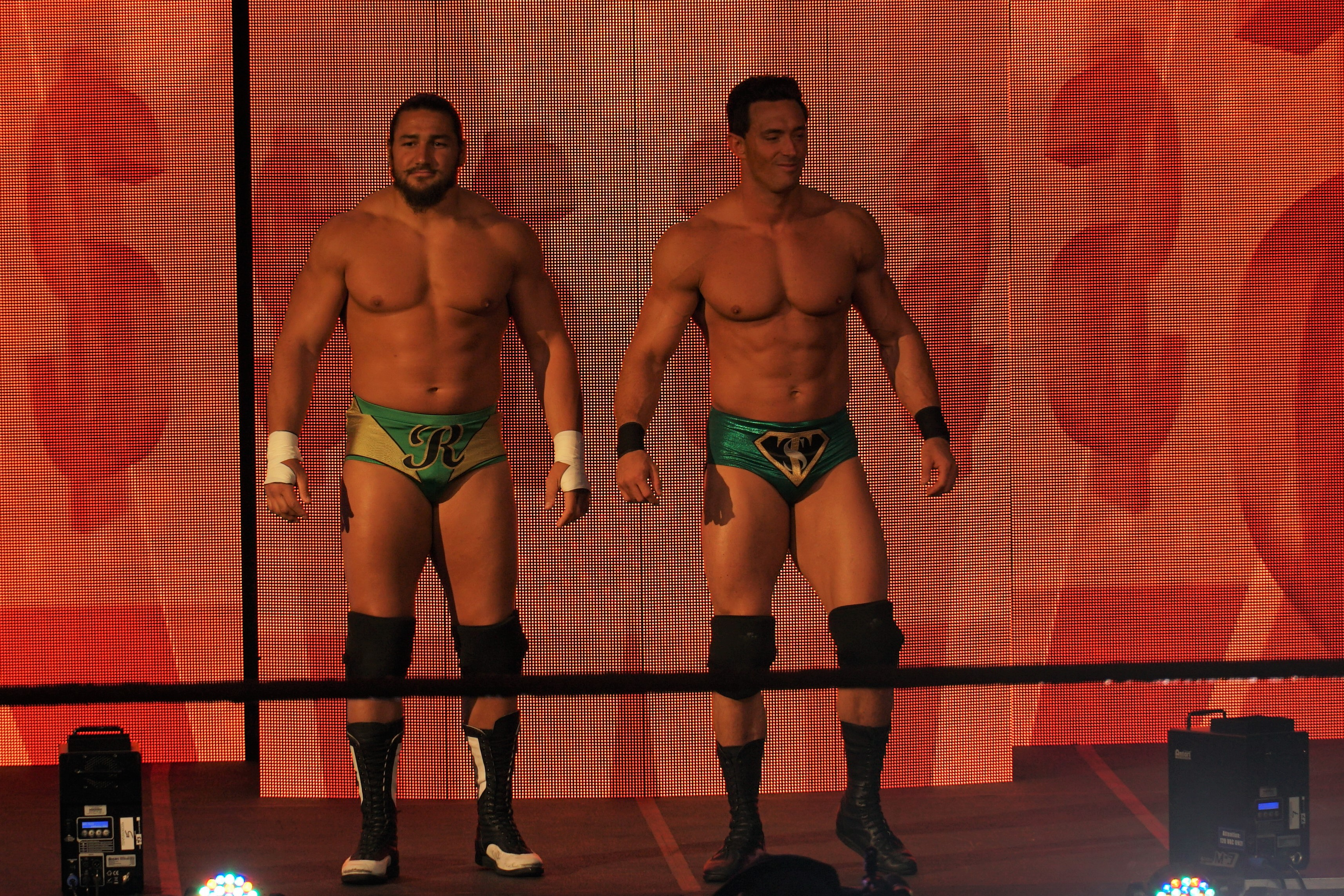 Riddick Moss (left) and Tino Sabbatelli entering the arena at WWE Axxess in April 2018.